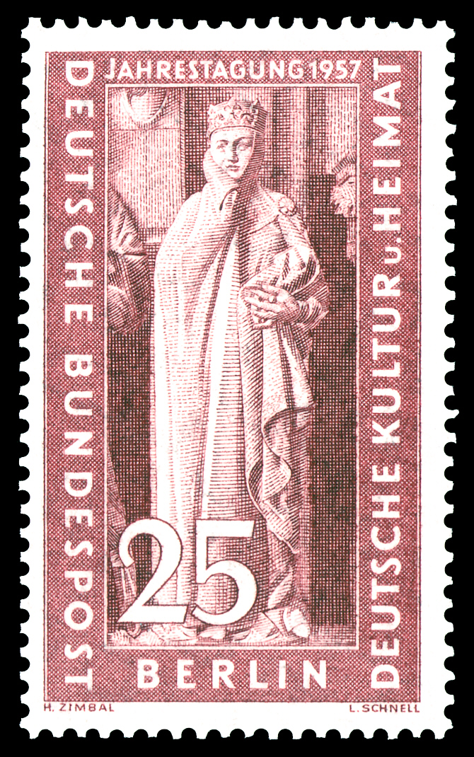 stamp for the 6th jearly meeting of the Ostdeutscher Kulturrat in Berlin